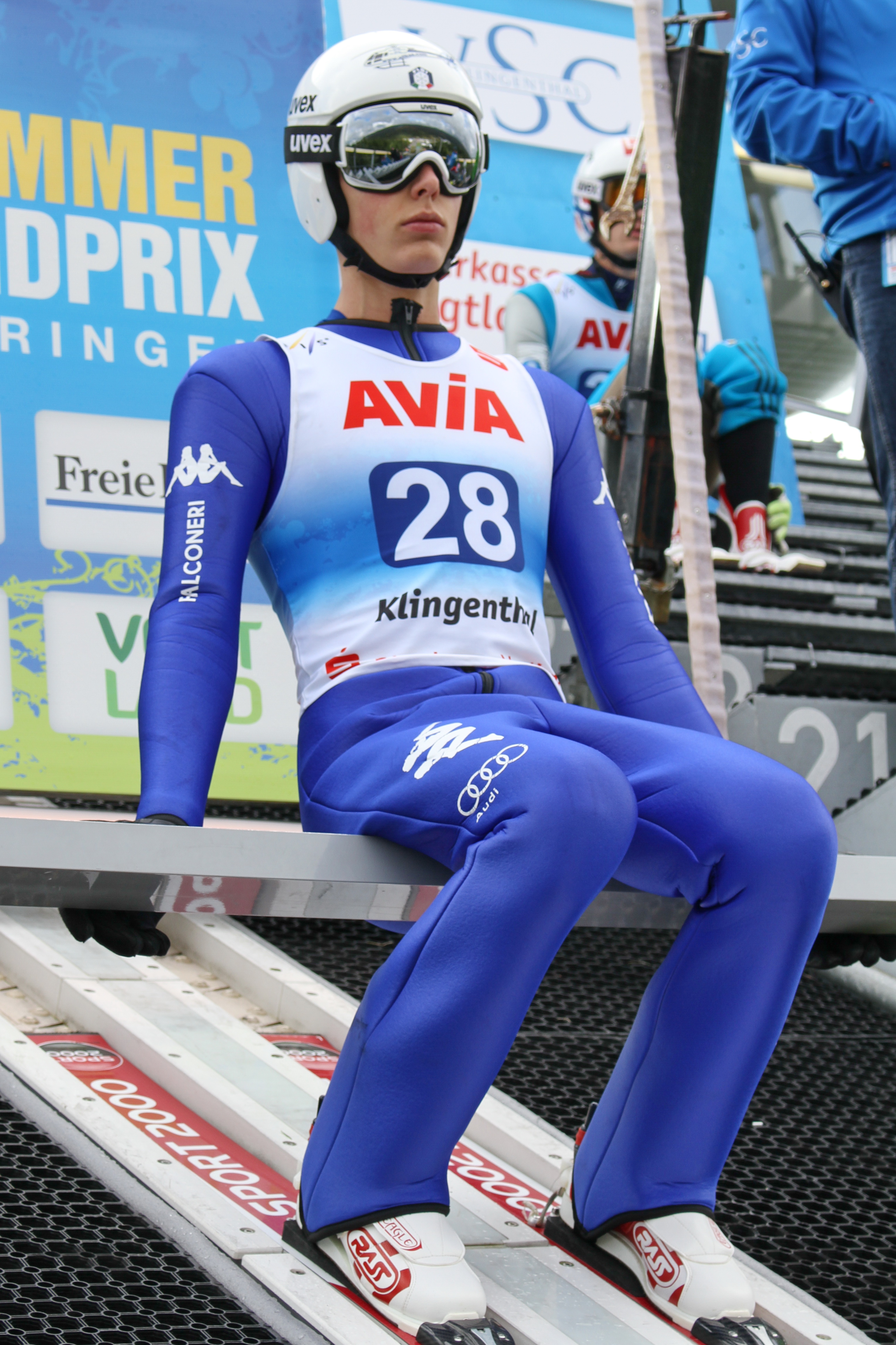 FIS Ski Jumping Summer Grand Prix Klingenthal 2017 on 2017-10-03 Alex Insam